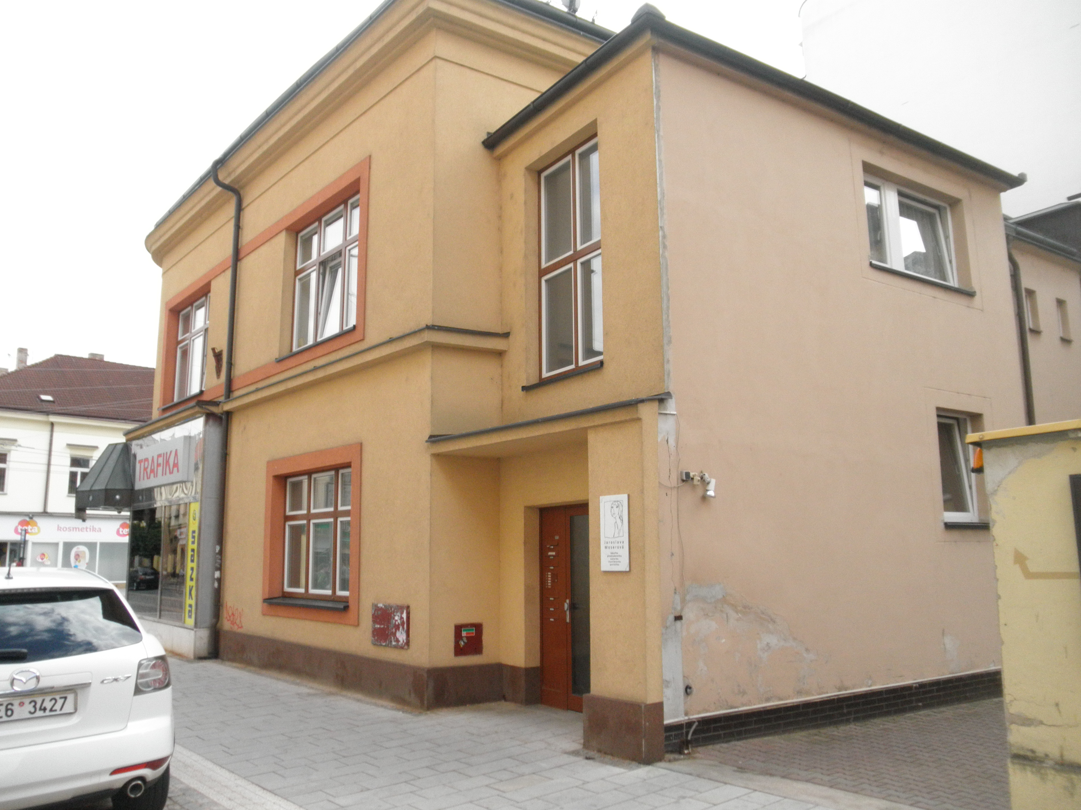 Photo of a here-worked building 95 třída Míru street in Pardubice with plaque of Jaroslava Moserová.